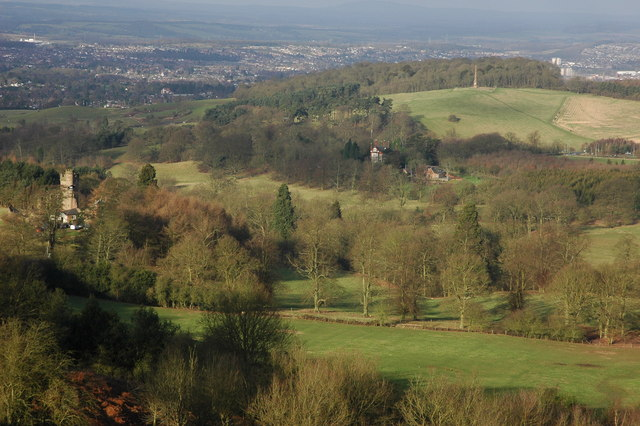 Hagley Park, the grounds of Hagley Hall viewed from near the Four Stones folly on the Clent Hills. Hagley Castle in the left foreground is a folly as is the Whichbury Obelisk (right middle distance).